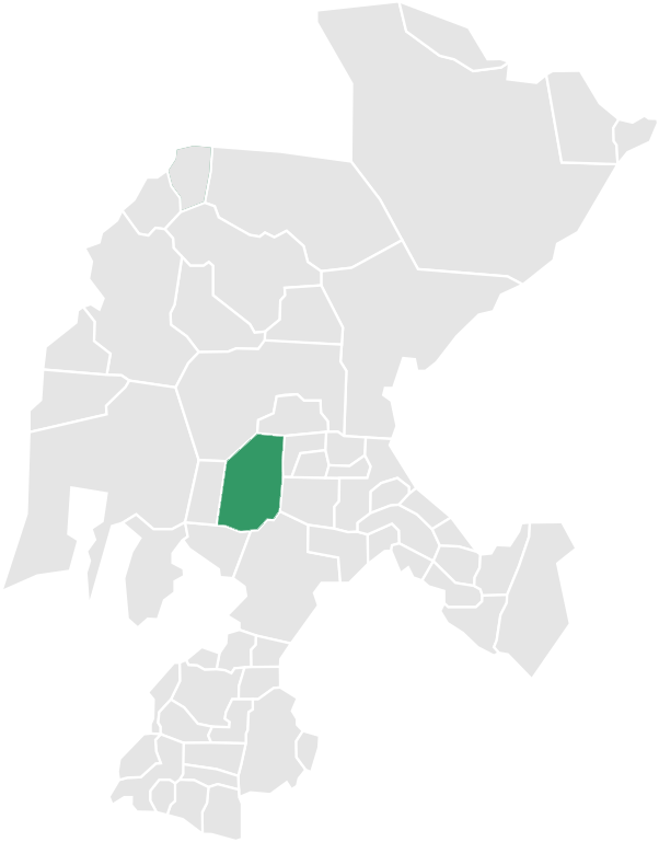 Map of the Municipality of Jeréz in Zacatecas, México.